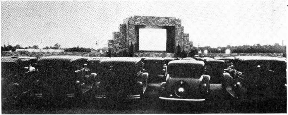 The first drive-in movie theater built by Camden, NJ industrialist Richard M. Hollingshead. in Pennsauken, near Camden, New Jersey. It had a 40 x 50 ft (12 x 15 meter) screen and could accommodate 400 cars. The admission was $0.25 per car plus $0.25 per person. Hollingsworth patented the concept May 16, 1933, it opened June 6, 1933 and the first film shown was Adolphe Menjou's Wife Beware. Within a few years drive-ins were being built all over the USA.